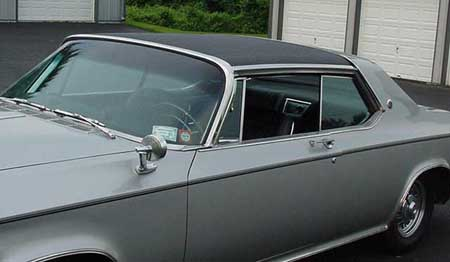 Chrysler with canopy roof